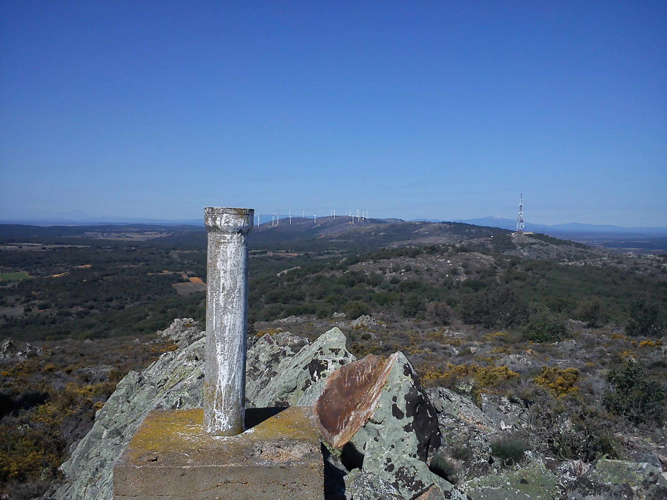 Vértice geodésico